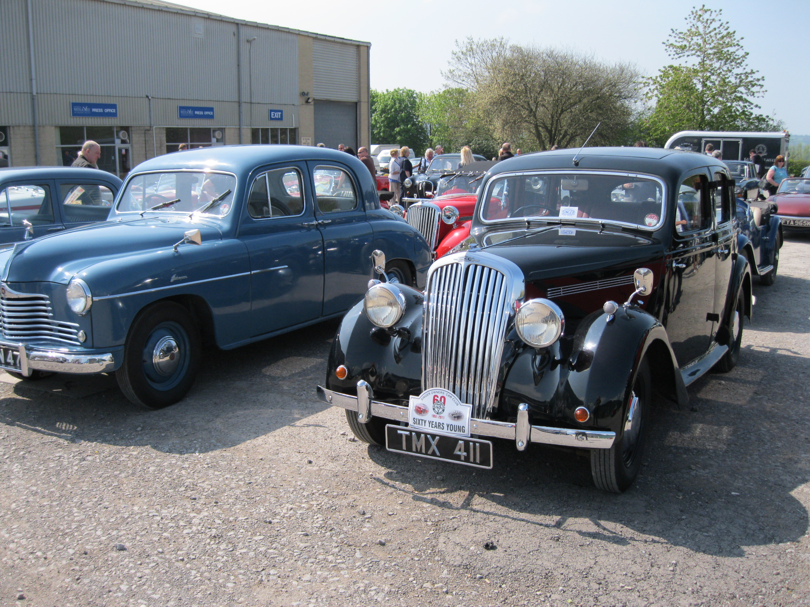 Spotted at the Bristol Classic Car Show (Royal Bath and West Showground) in April 2011. The SM1500 (left) was introduced in 1948 and was produced until 1954, while the Super Twelve was a 1947-48 model. Both featured overhead camshaft engines, which was relatively unusual among British cars at the time.